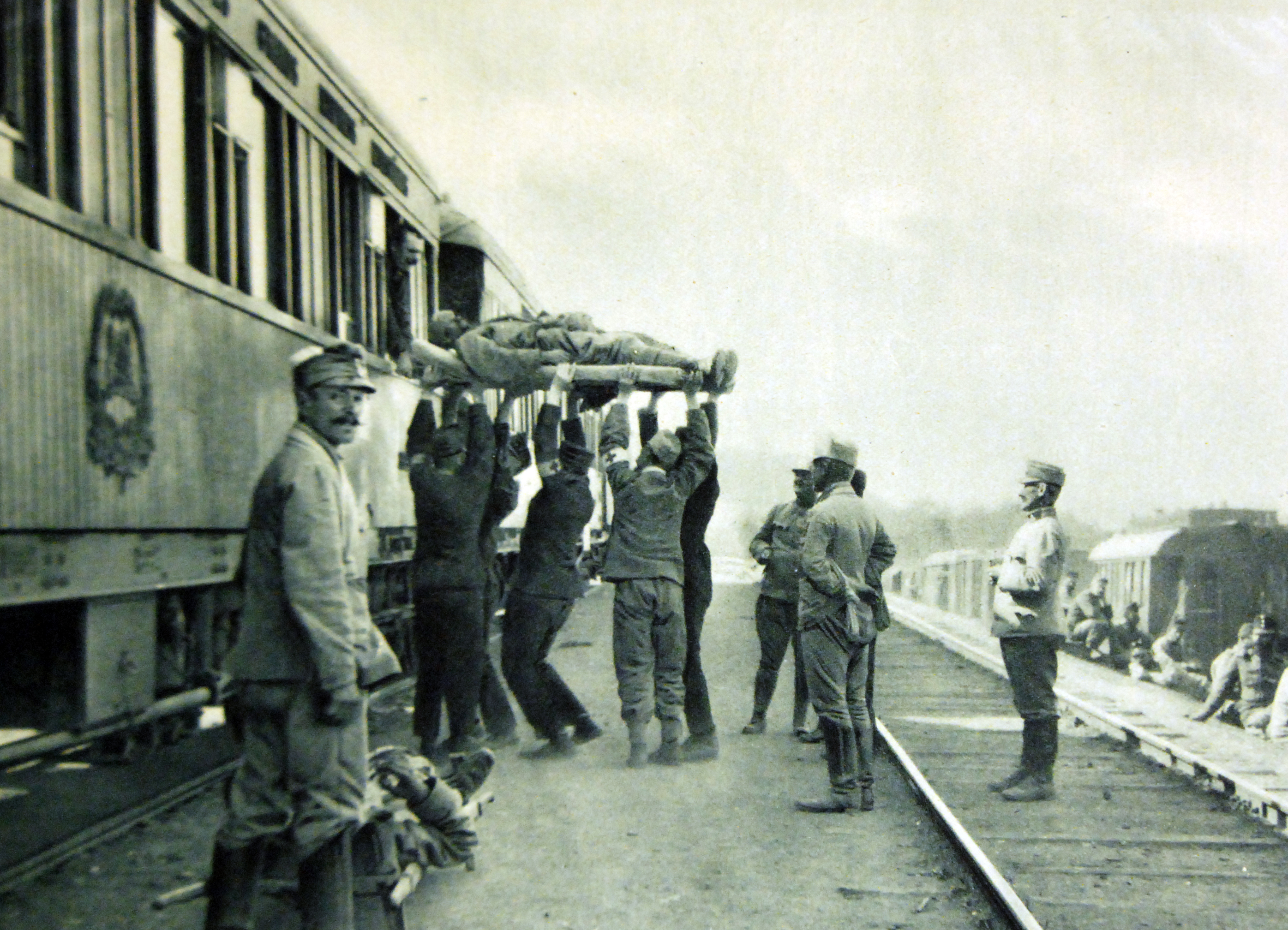 Lot-2642-2: WWI: Central Powers: Austrio-Hungarian. Original caption reads, “Heavily Used” Troops. From the album Austro-Hungarian Troops at War, 1916. Courtesy of the Library of Congress. (2017/03/17).